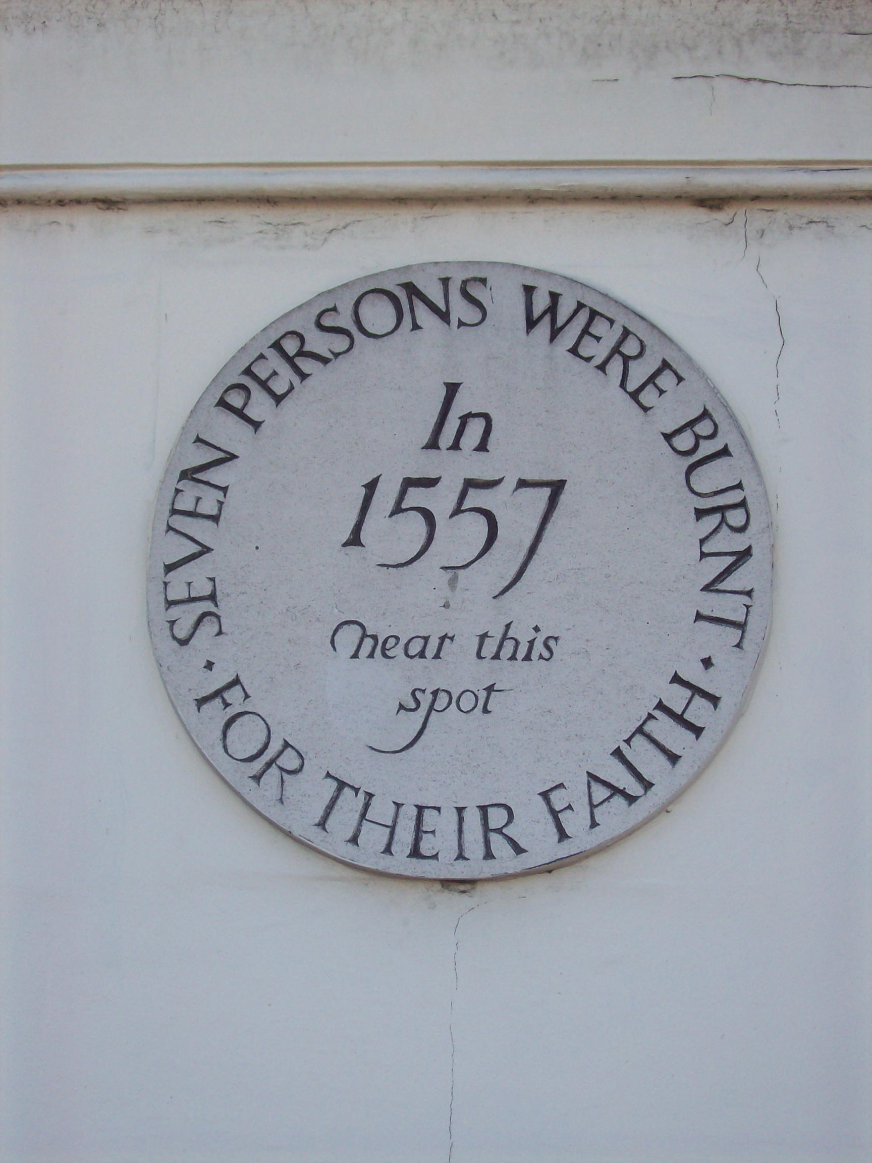 The plaque commemoration the martyrs burned at Maidstone in 1557